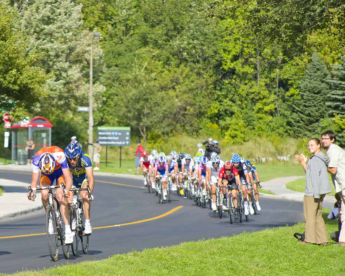 The Grand-Prix Cycliste de Montréal racers during the last lap, on Remembrance road near the Smith house on Mount-Royal.